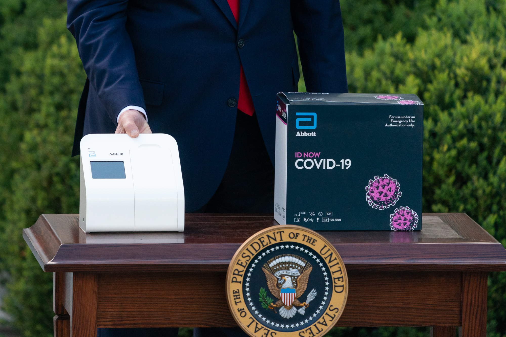 President Donald J. Trump displays the Abbott Laboratories 15-minute COVID-19 testing device during a coronavirus (COVID-19) update briefing Monday, March 30, 2020, in the Rose Garden at the White House. (Official White House Photo by D. Myles Cullen)